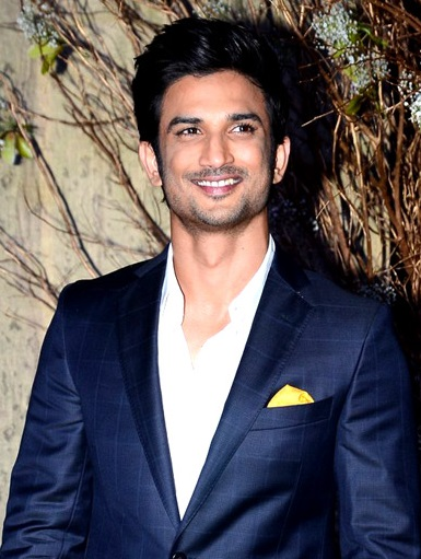 Manish Malhotra’s 50th birthday bash